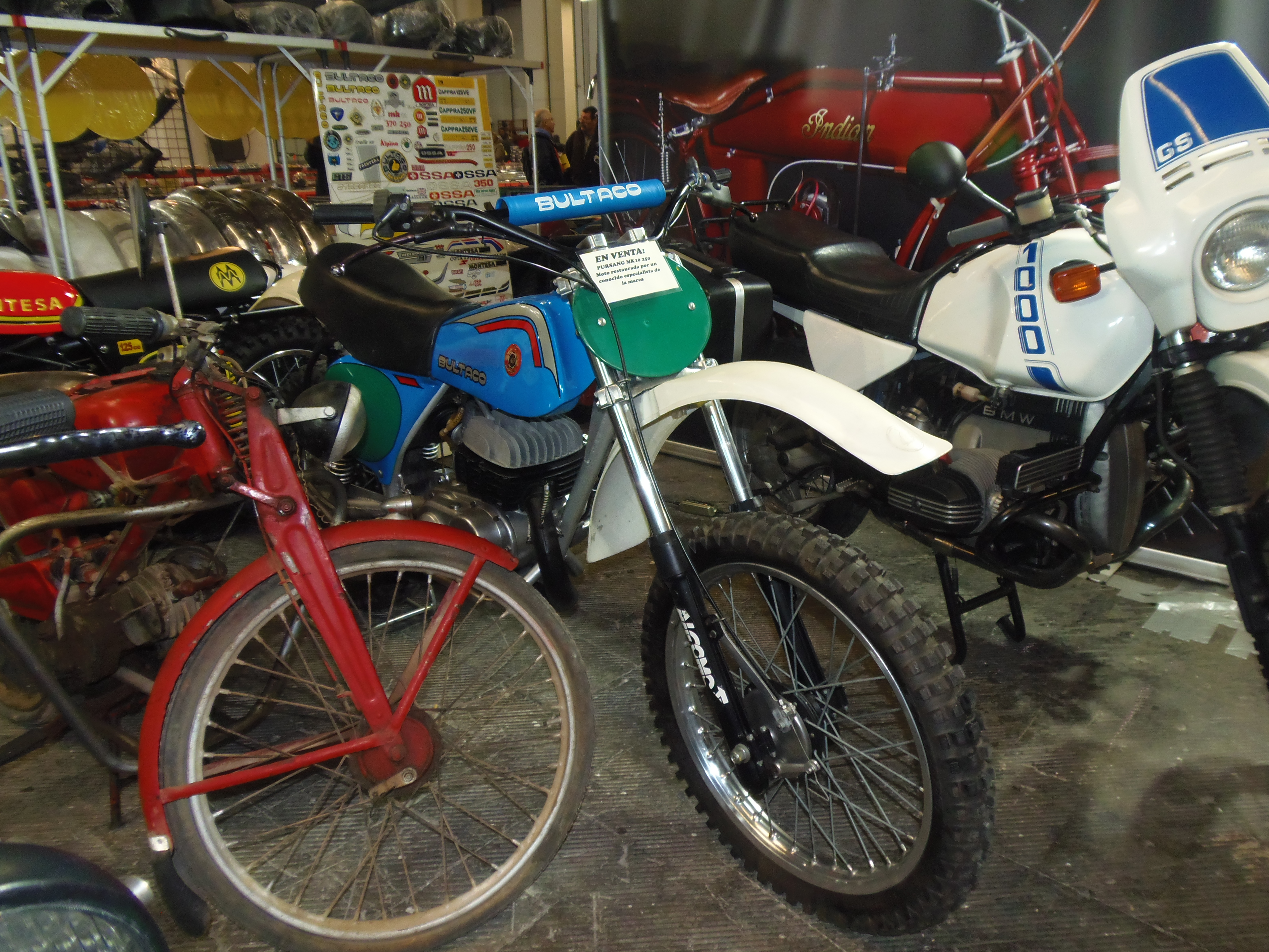 Bultaco Pursang Mk10 250, 1977